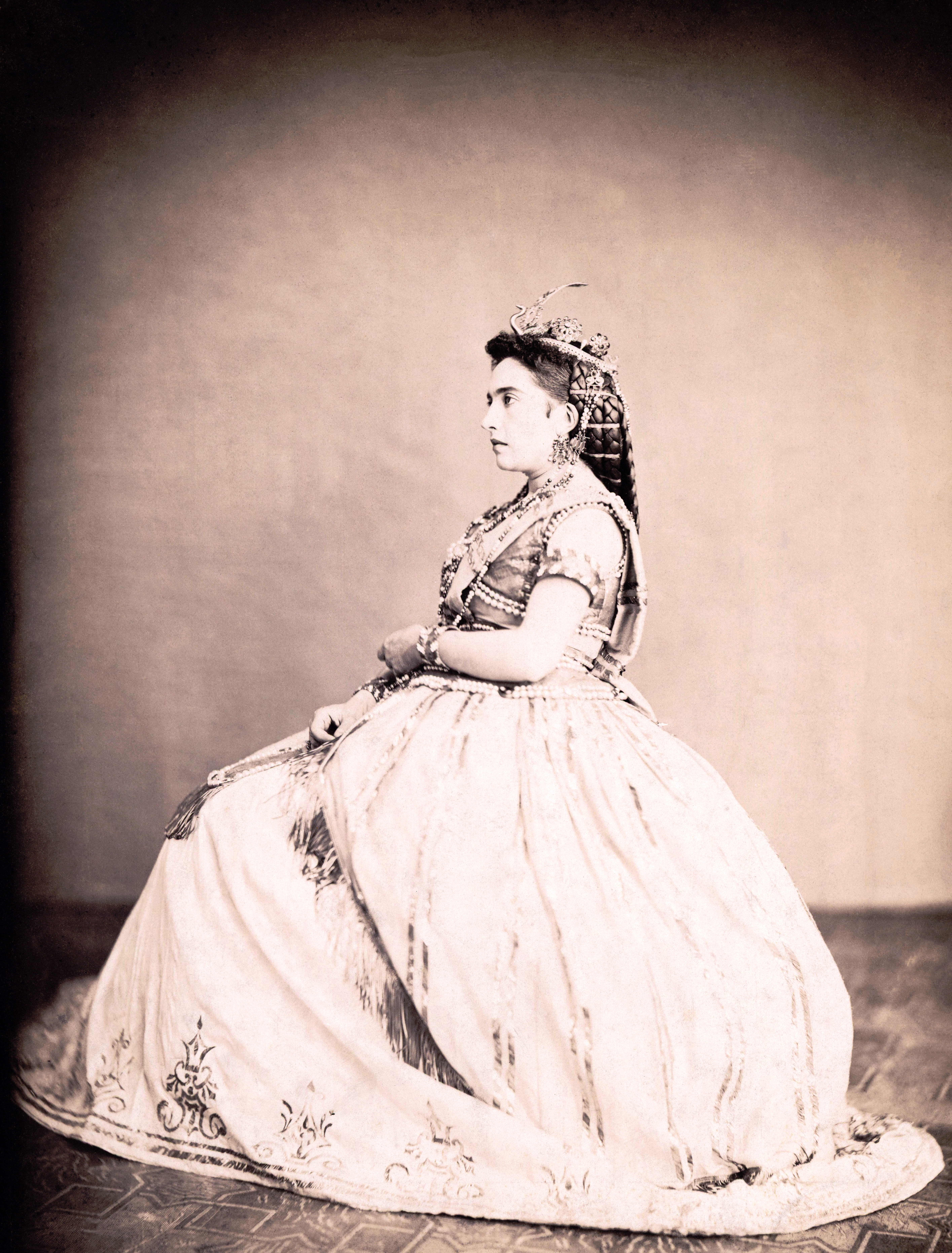 Pauline Guéymard-Lauters in the title role of Gounod's opera La reine de Saba at the Opéra in Paris in 1862